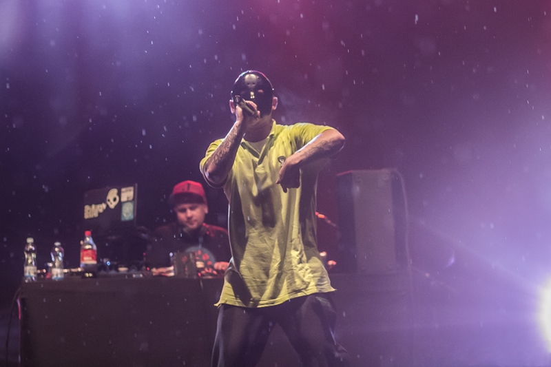 Polish raper Kaen, 2013